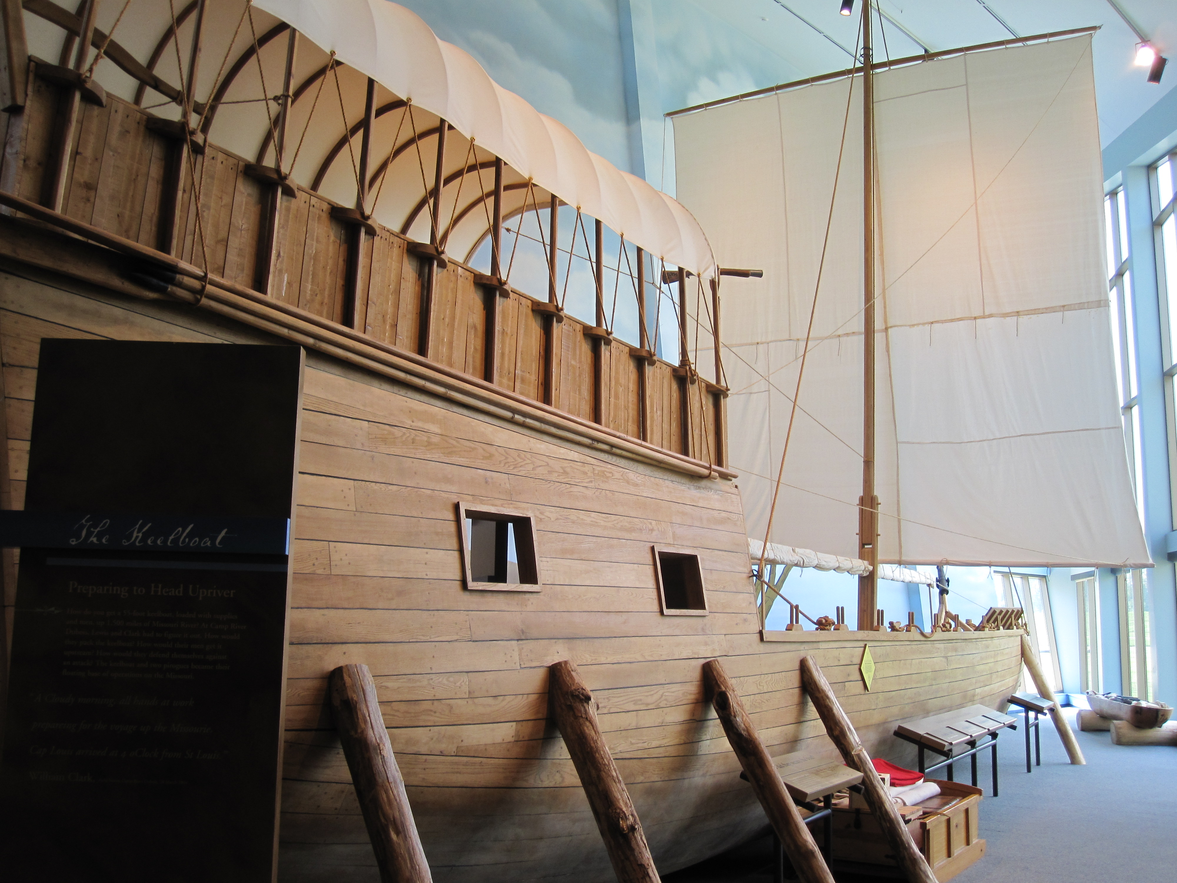 The Keelboat at the Lewis and Clark State Historic Site, Hartford, Illinois. This is a 55-foot (16.8 m) full-scale replica of one used by the Lewis and Clark Expedition. Original caption: "At the Lewis & Clark Trail Site and Museum"